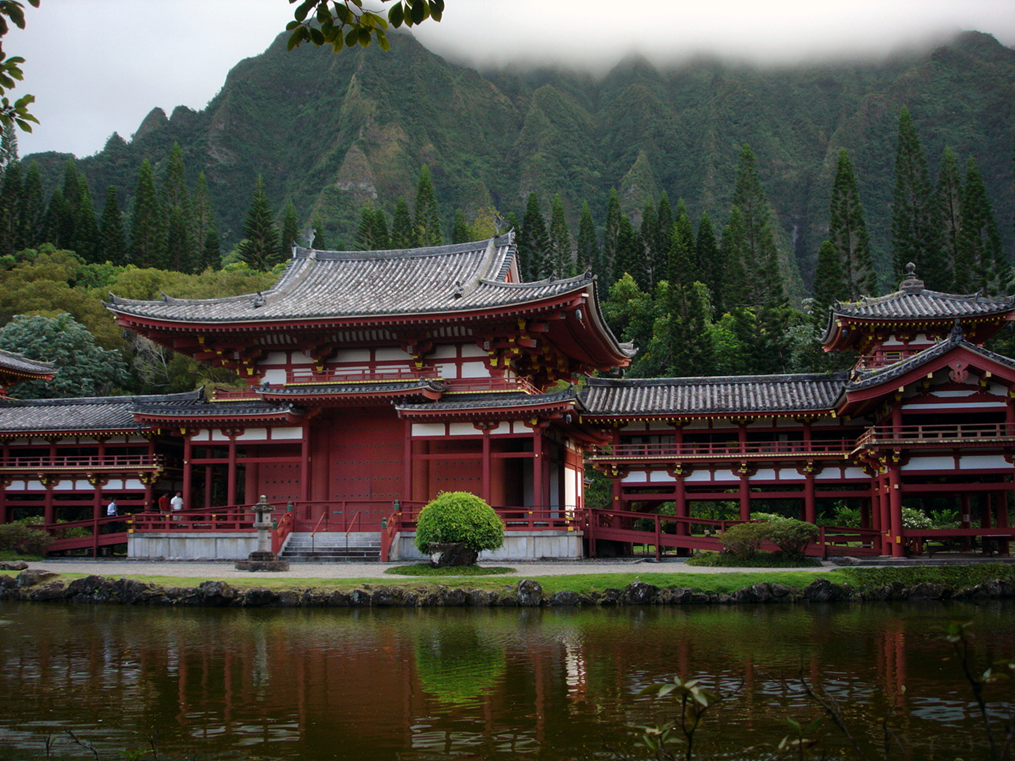 I shot this picture of the Valley of Temples on Oahu's eastern side myself in August of 2006.